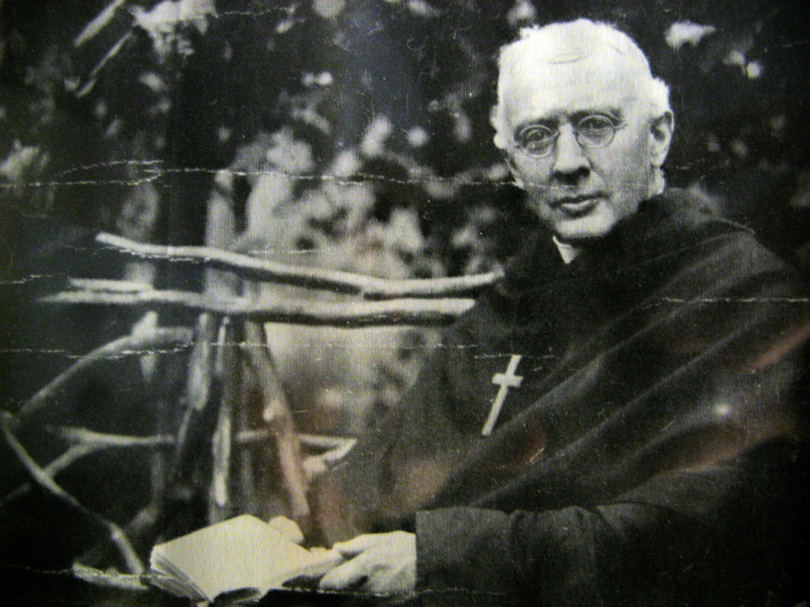 Photo of James Otis Sargent Huntington, OHC, circa 1920. From Flickr uploaded by Randy OHC Used under Creative Commons License.